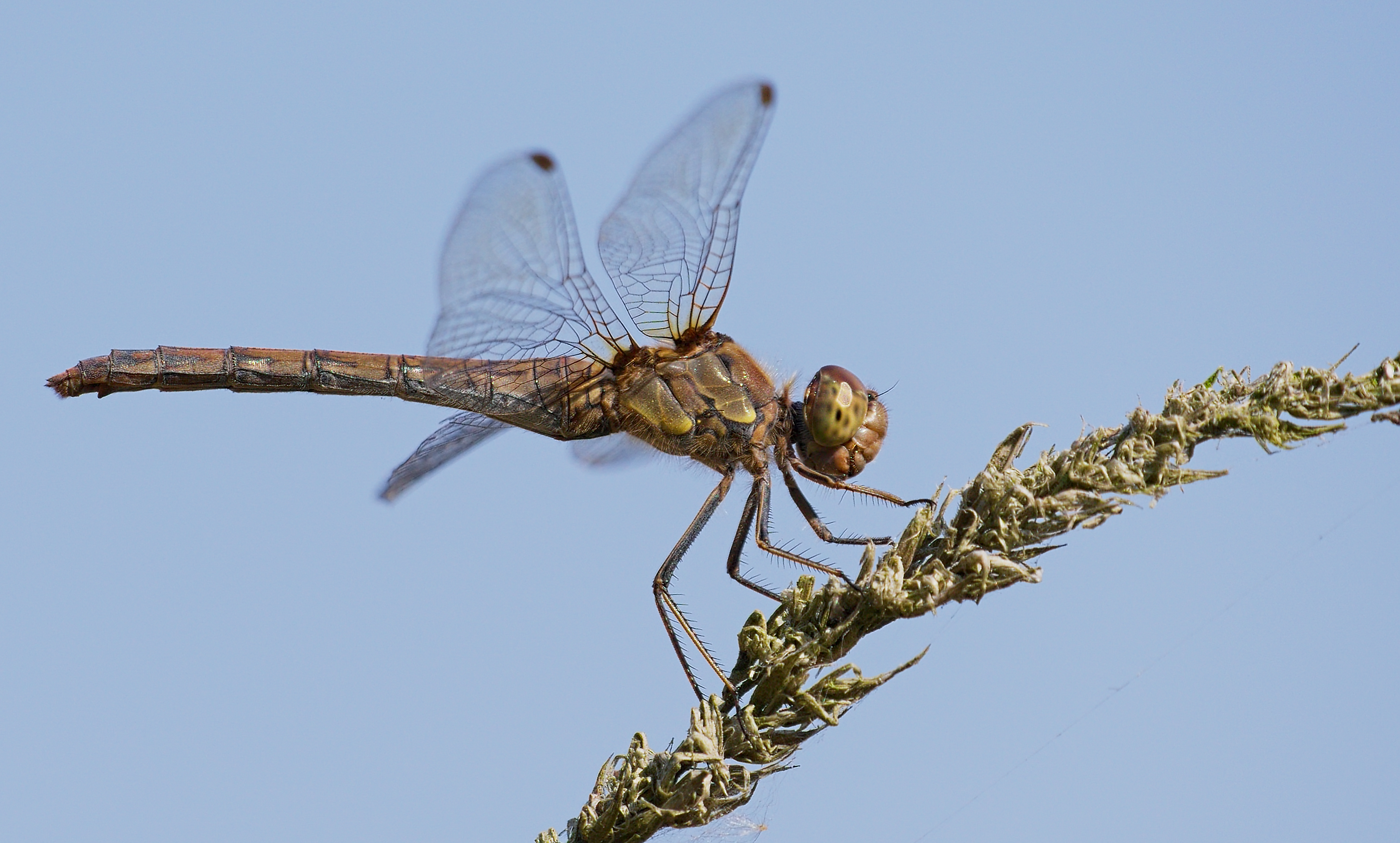 Common darter - Sympetrum striolatum, female. Taken by a fishing lake in Brühl, Baden-Württemberg, Germany.